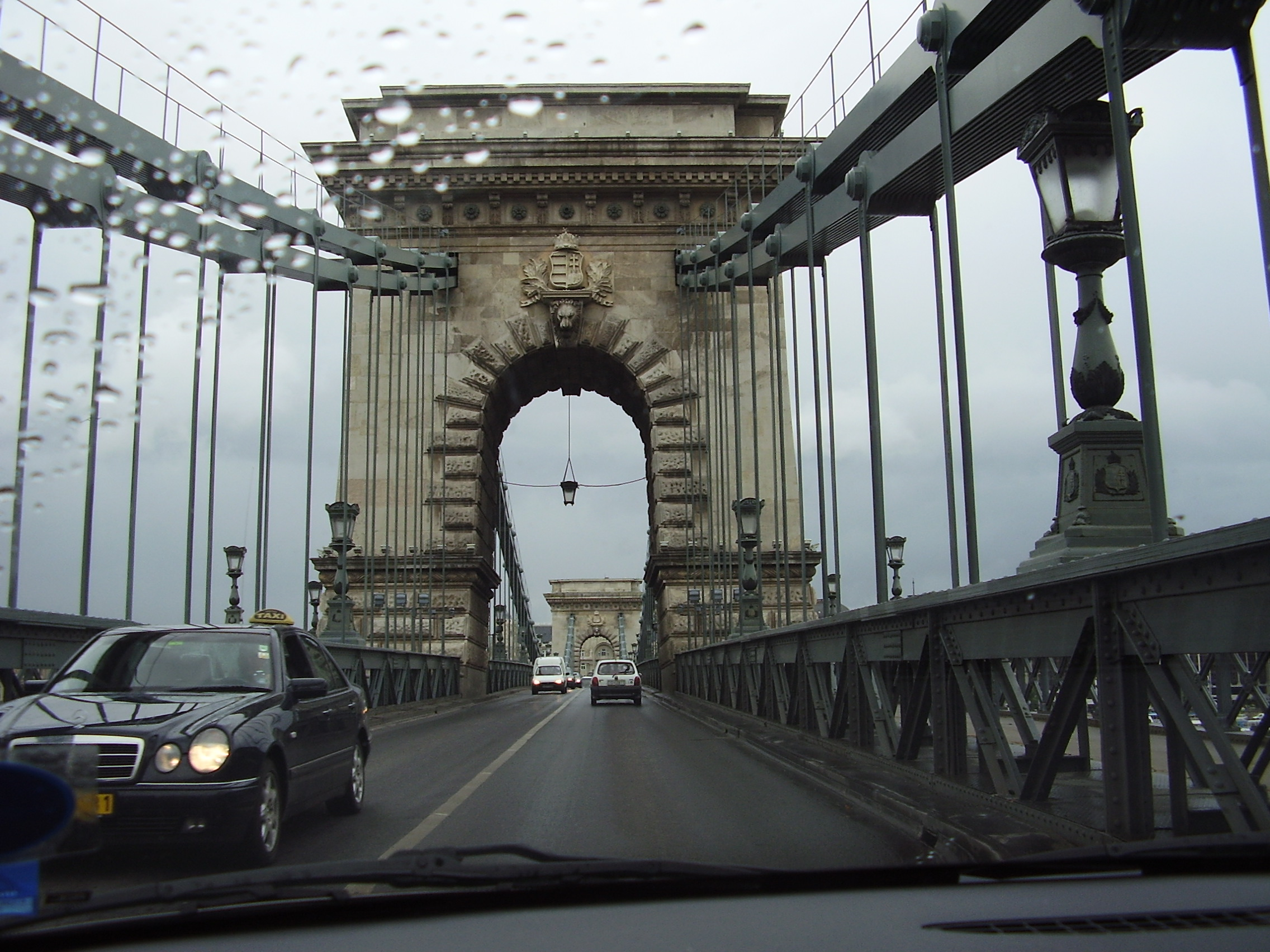 Széchenyi lánchíd